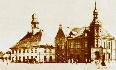 Town hall and Imperial Post Office in Darkehmen (renamed 1938: Angerapp, renamed 1945: Ozyorsk), Darkehmen district, East Prussia, Germany. Today in Kaliningrad Oblast in Russia.